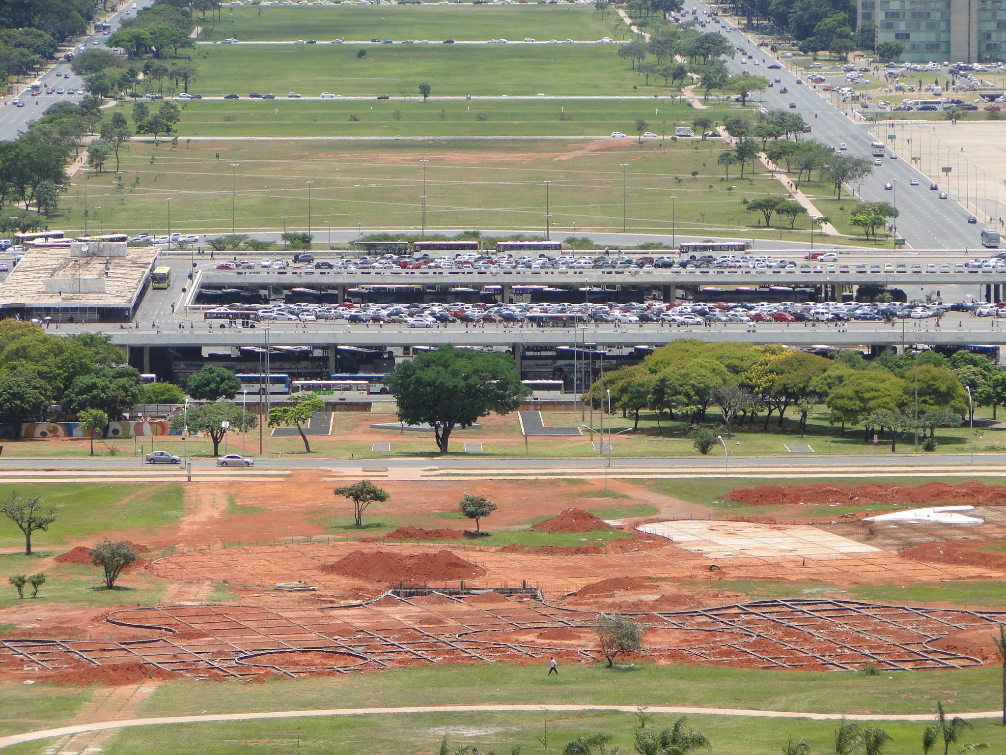 Brasilia central bus station